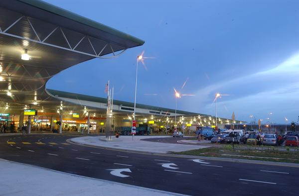 LCCT at kuala Lumpur international airport - It houses the corporate head office of AirAsia